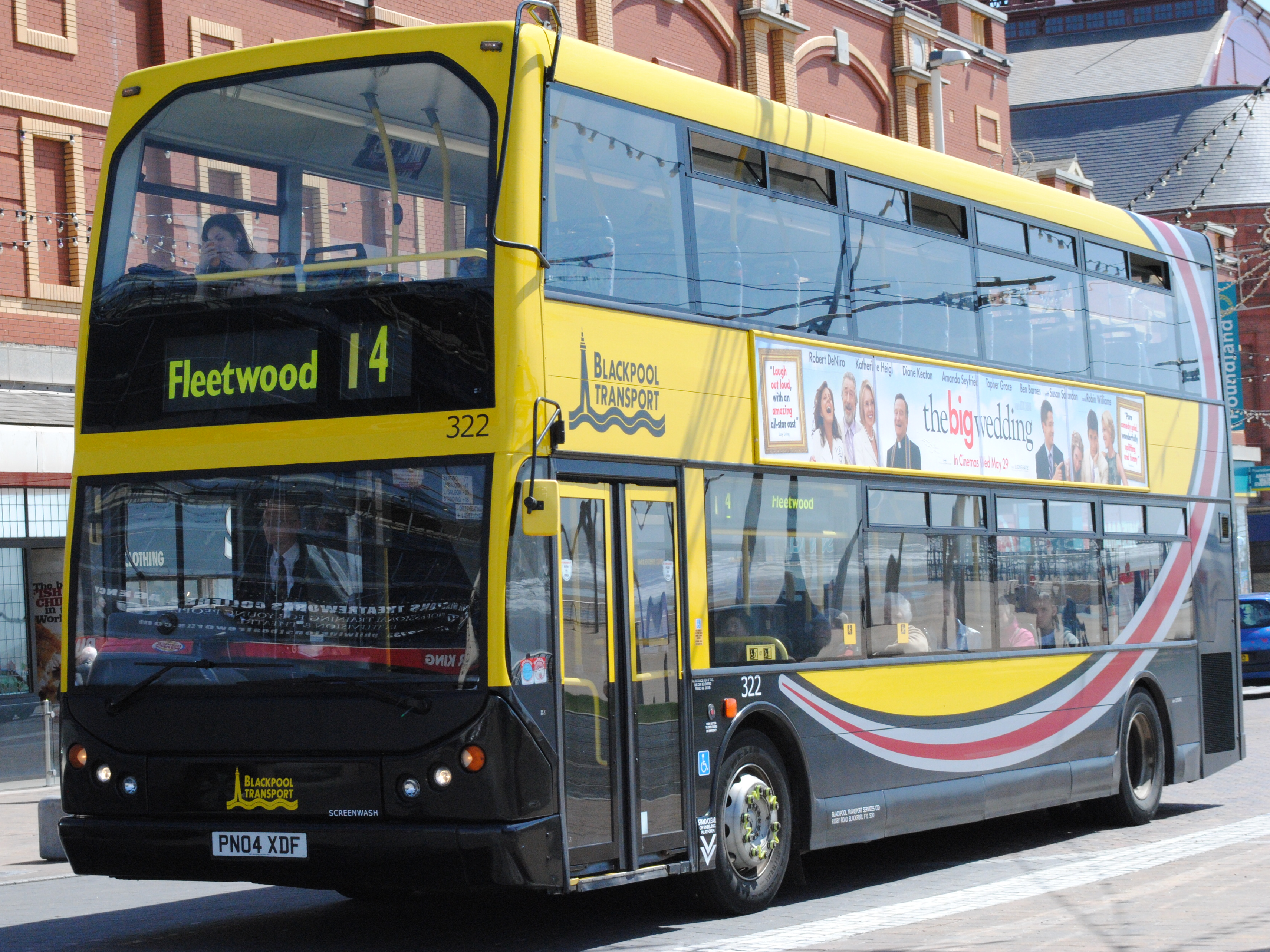 Transbus Trident East Lancs Myllennium Lolyne